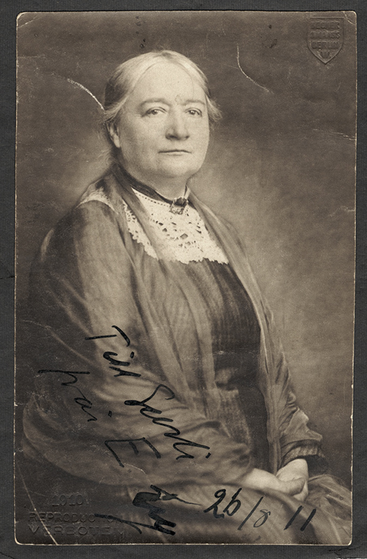 Depicted person: Ellen Key